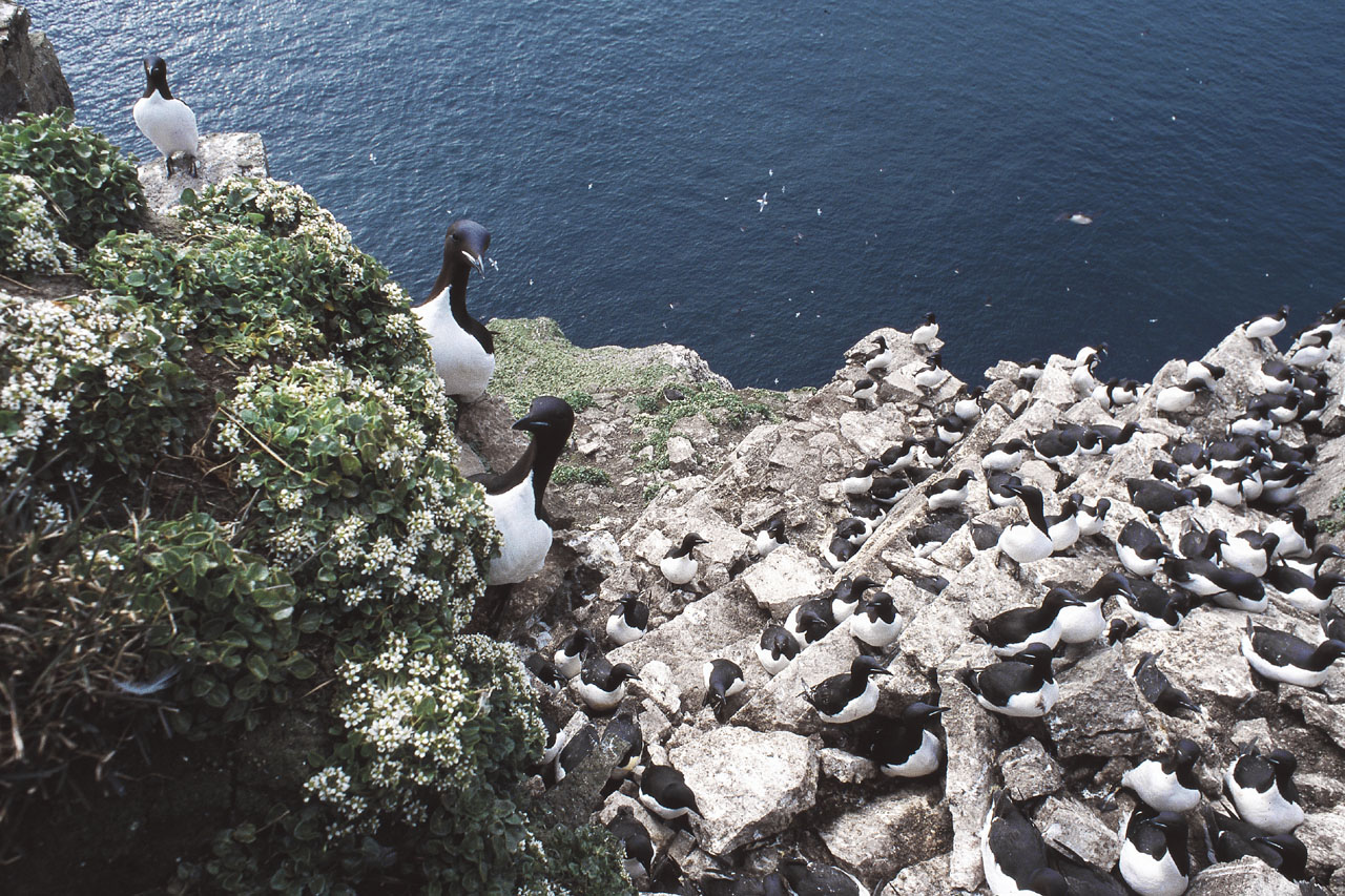 Uria lomvia, Brunnich´s Guillemot, at bird cliff of Stappen, southern Bear Island (Bjoernoeya), Barentsea, Svalbard